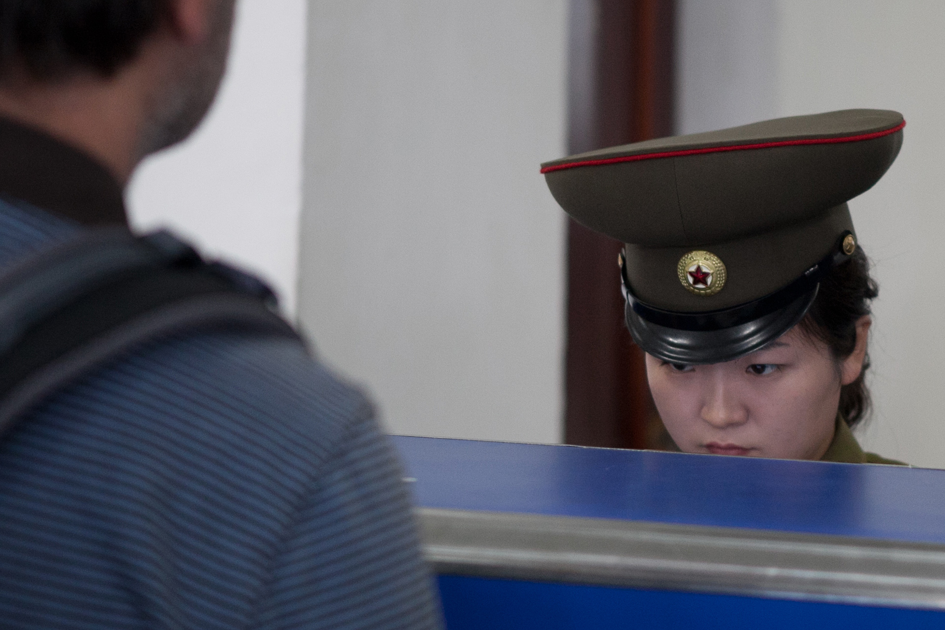 Strict supervision. Passports and visa are required, of course.